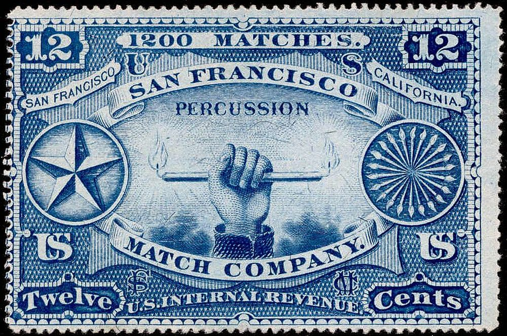 Image of San Francisco Percussion Match Co proprietary stamp, 12c, issued 1872